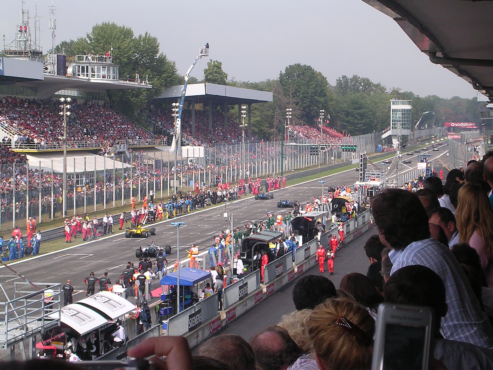 The Autrodomo Nazionale of Monza (italy) during a race in september 2004